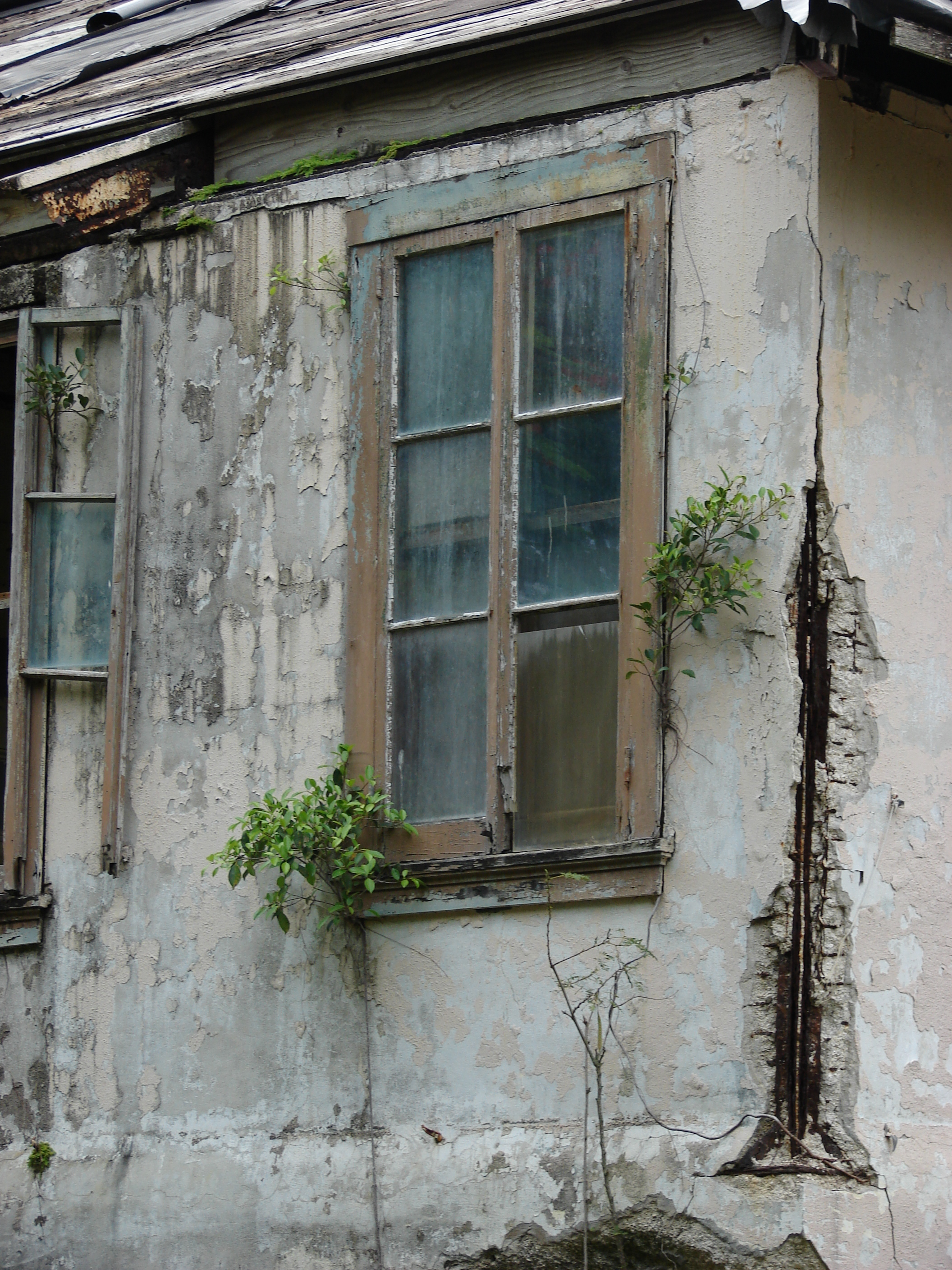 Ficus microcarpa (Chinese banyan tree) Small plants on building at Cable Company buildings Sand Island, Midway Atoll, Hawaii. June 10, 2008 #080610-8075 Image Use Policy